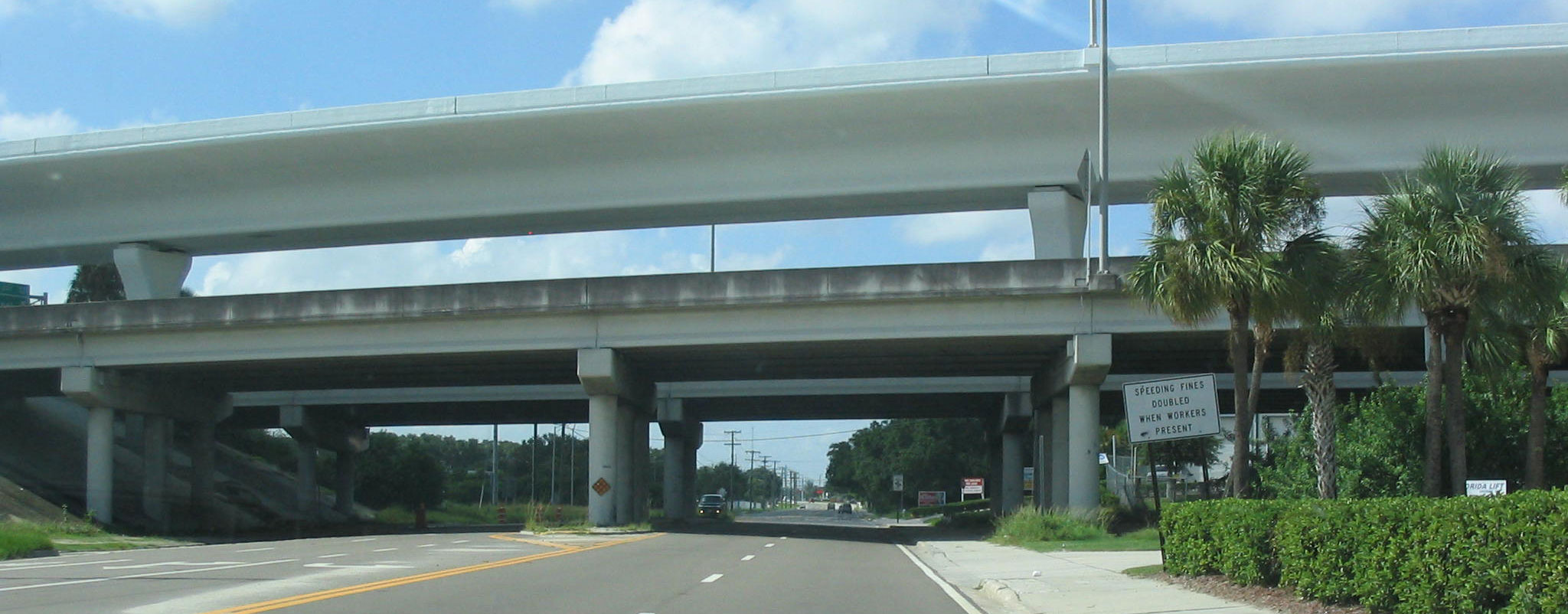 78th Street south at SR 618 in Tampa, Florida, taken August 6, 2006 by SPUI.